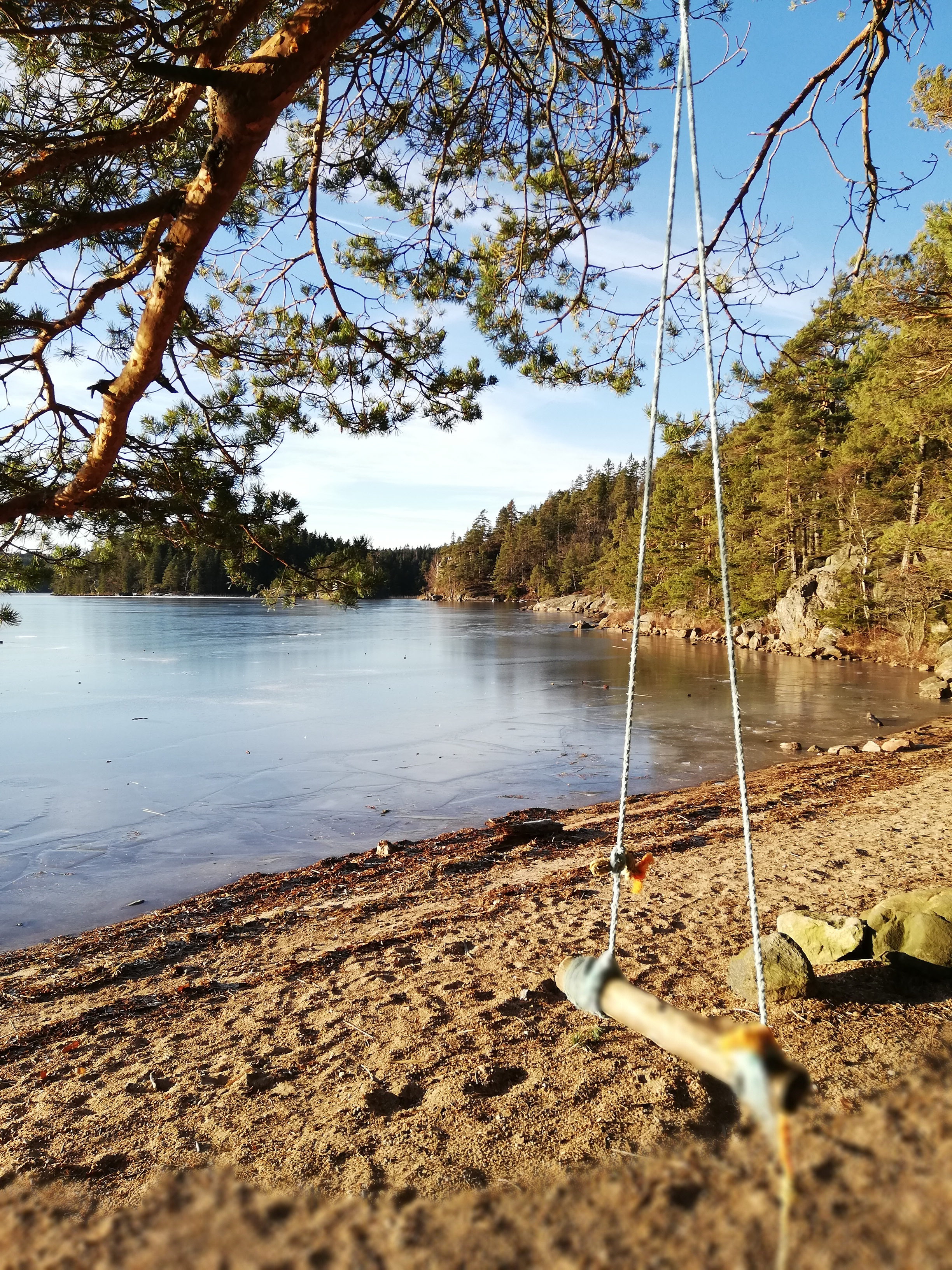 Secluded Lake in the forest, Sweden